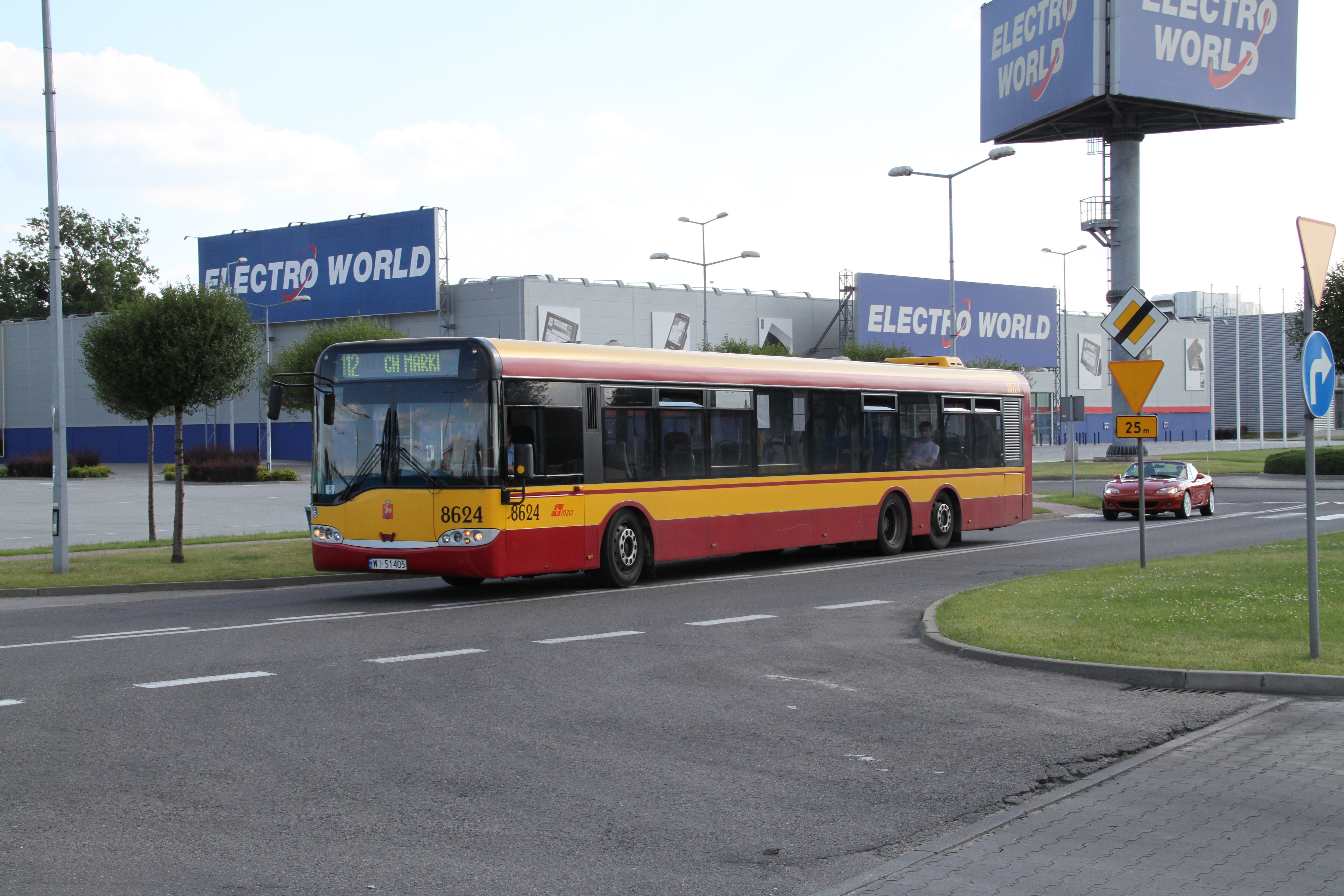 Solaris Urbino 15 bus (#8624, built in 2002, MZA Warszawa operator) on line 112, CH Marki, Marki/Warsaw, Poland.